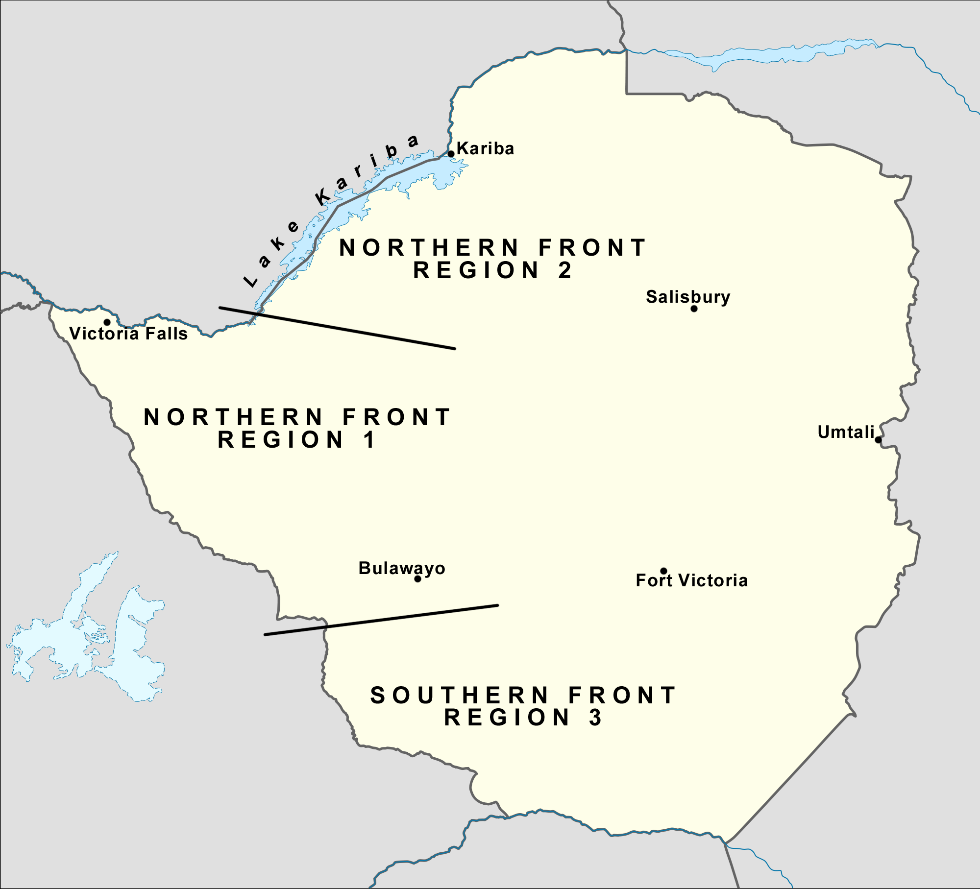 Sectors within Rhodesia, as defined by the Zimbabwe People's Revolutionary Army in the early 1970s.